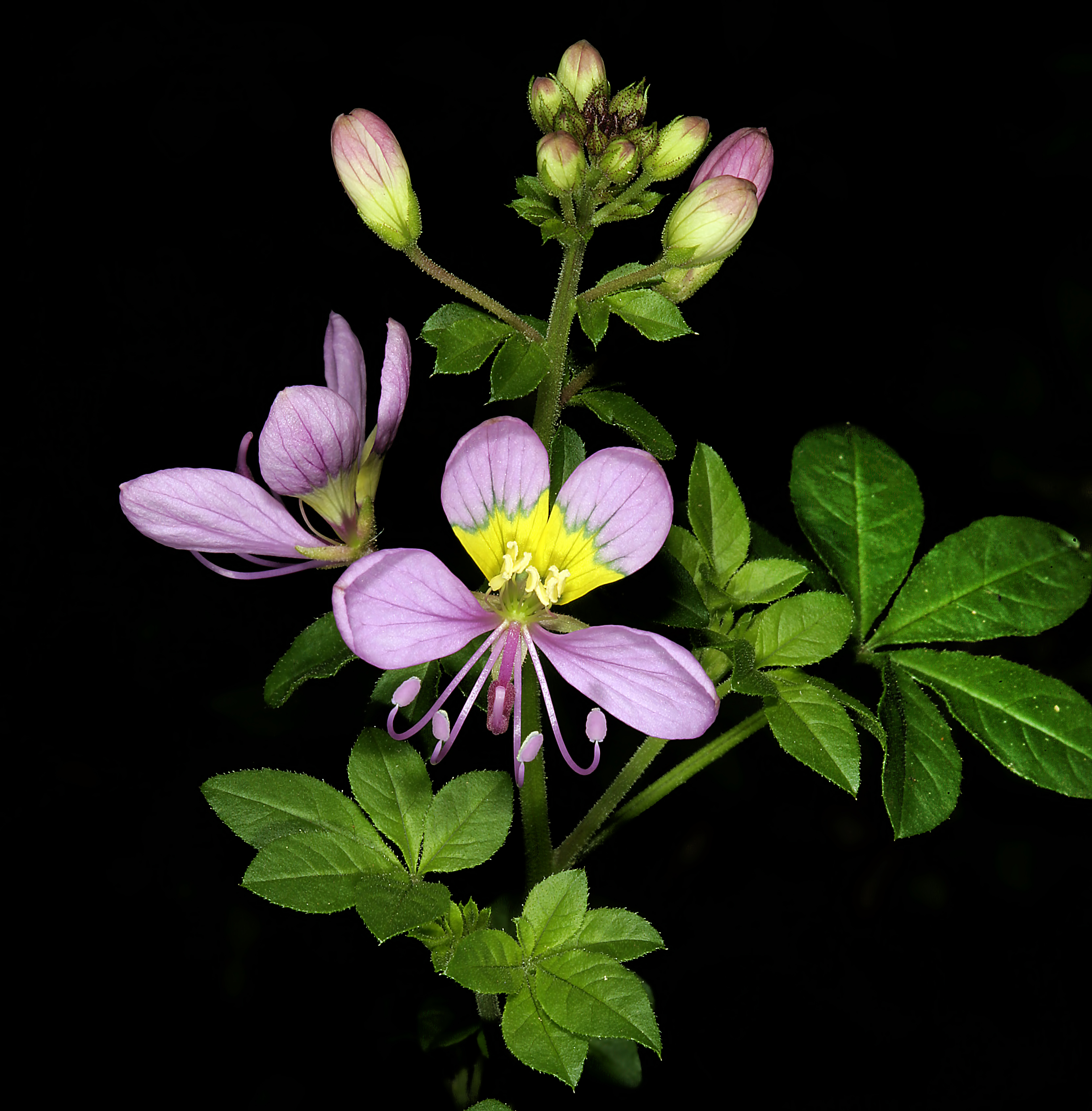 Cleome oxyphylla var. oxyphylla, between Polokwane and Louis Trichardt, South Africa